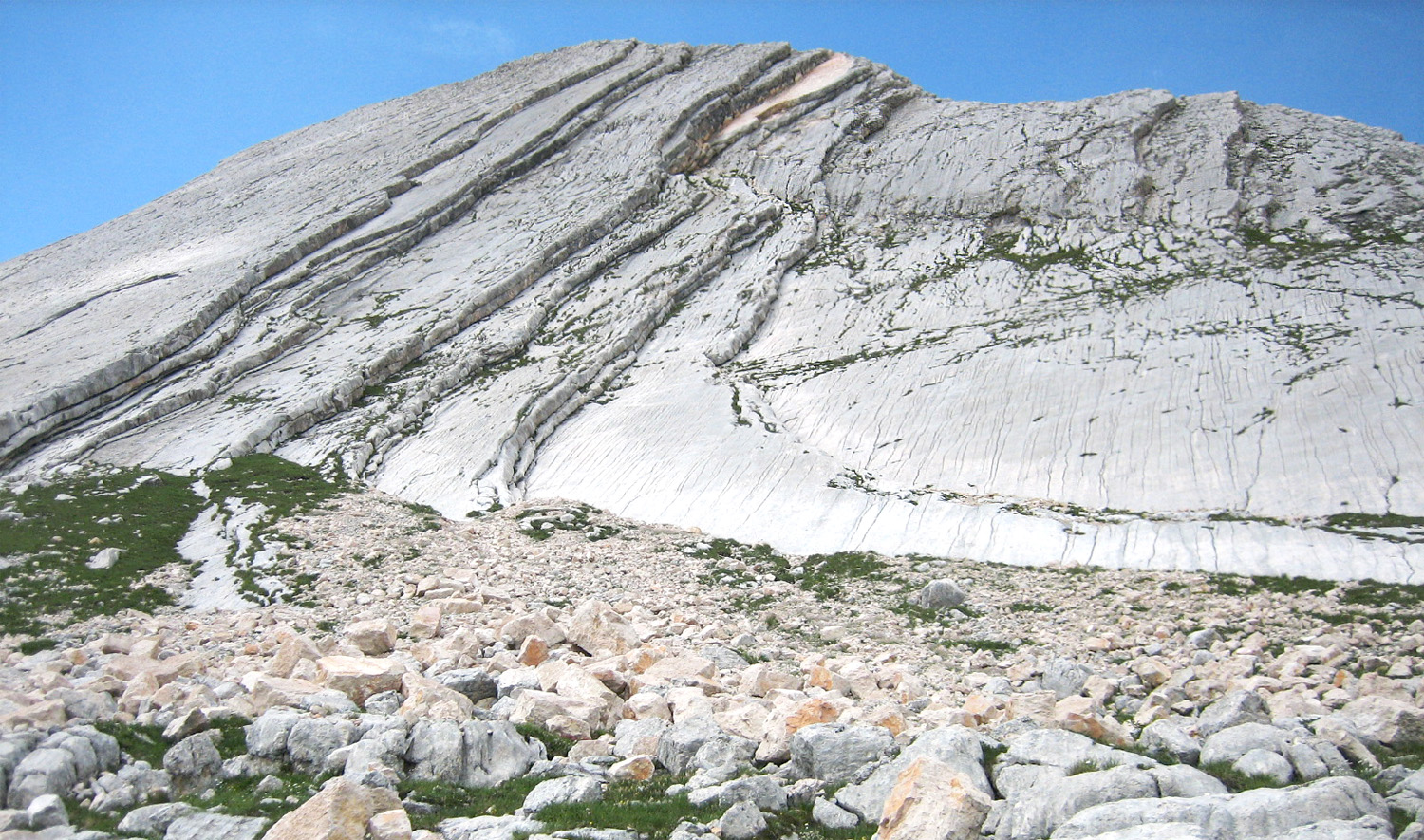 Stone Formations in the Fanes-Sennes-Prags Nature Parc - South Tyrol